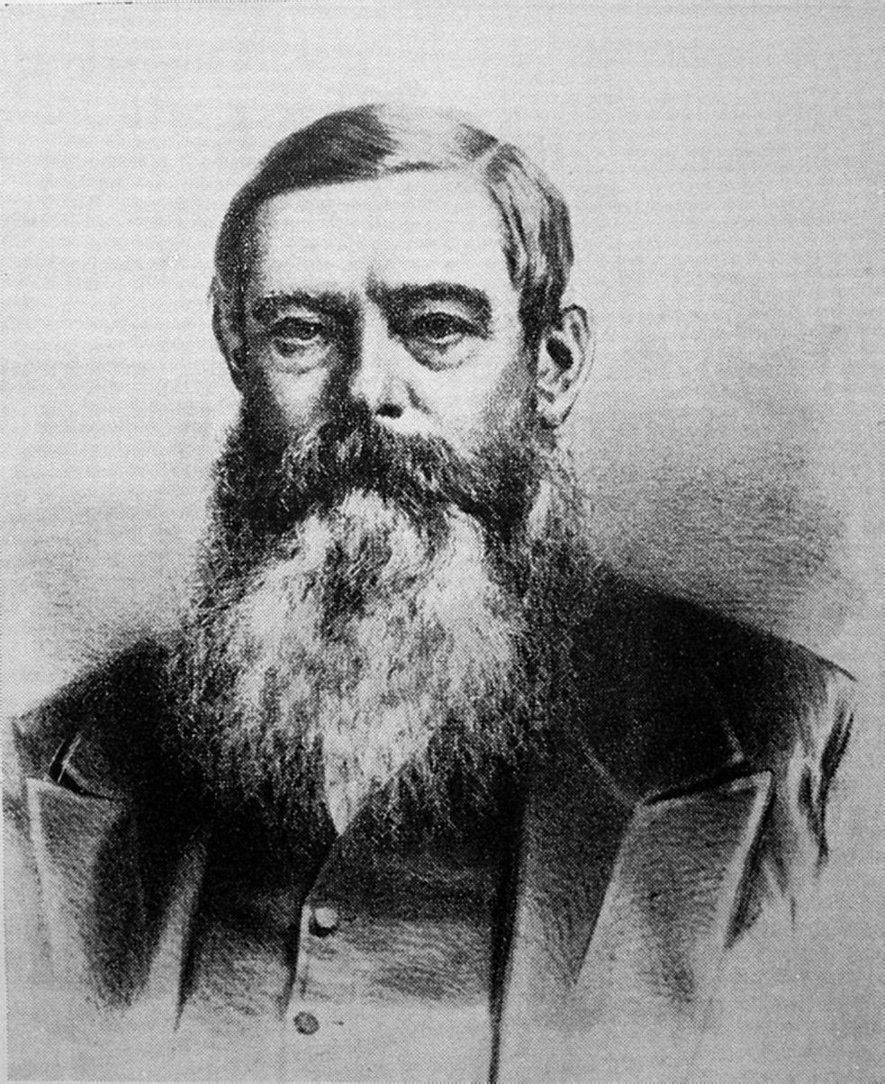 Johannes Henricus Brand (1823-1888), President of Orange Free State